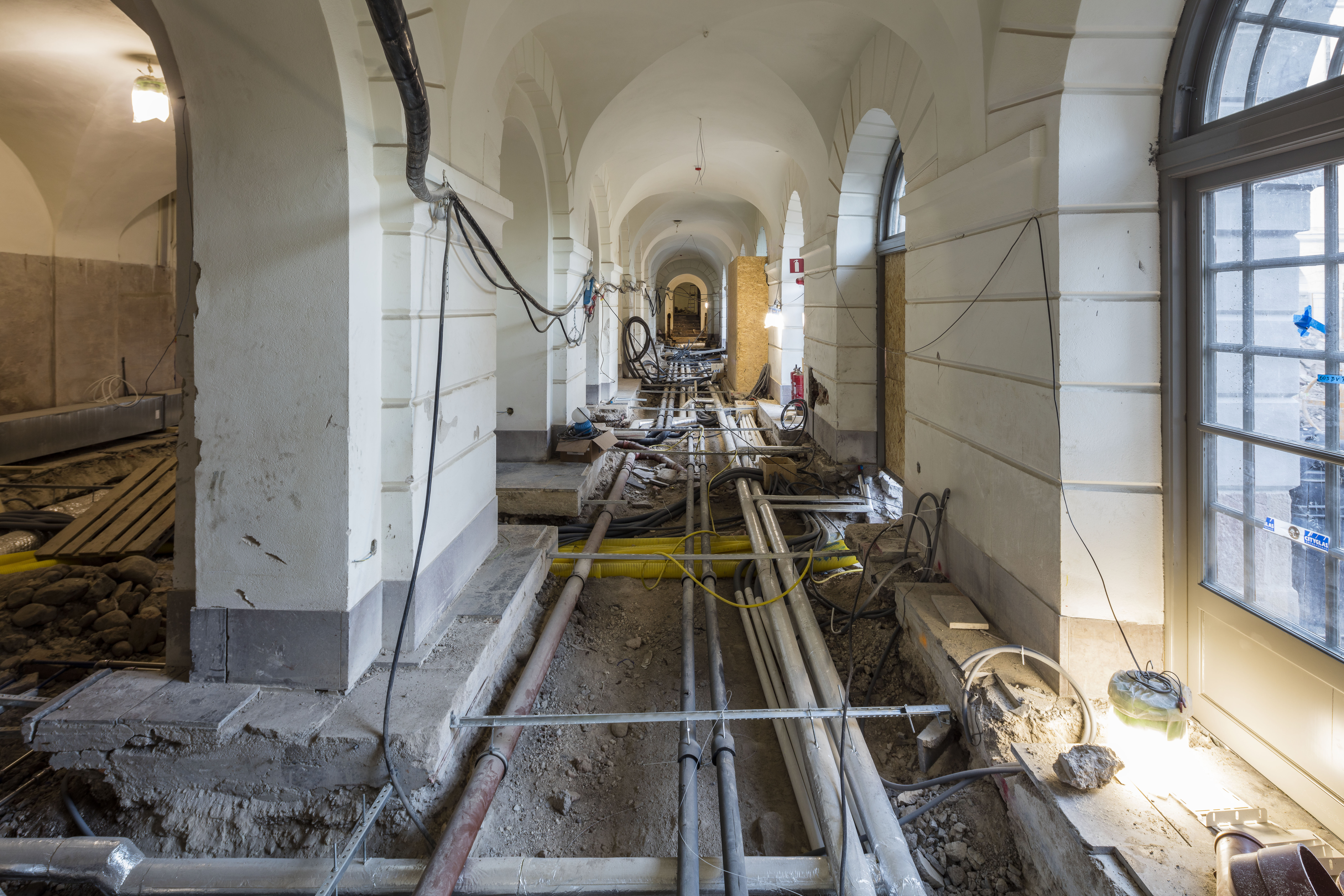 FOTOGRAFIStadsmuseet Slussen under renovering. Fotograferat 2017-11-17. Rum 105. -FOTOGRAF: Ek, Mattias.BILDNUMMER:Stadsmuseet i Stockholm